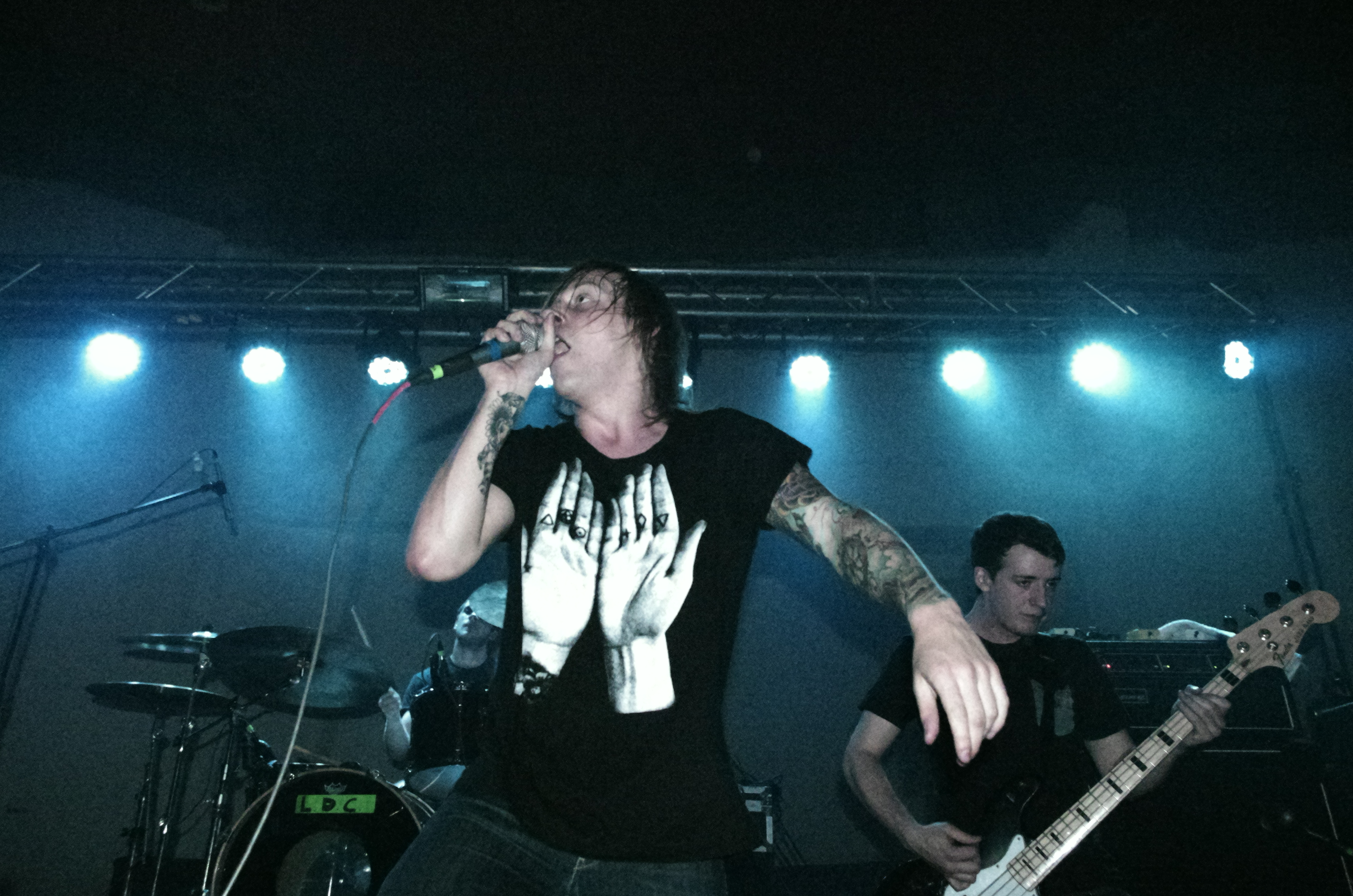 Architects' lead singer Sam Carter performing live in Bogotá, Colombia at the Teatro Metro Bogota on 27 April 2012.